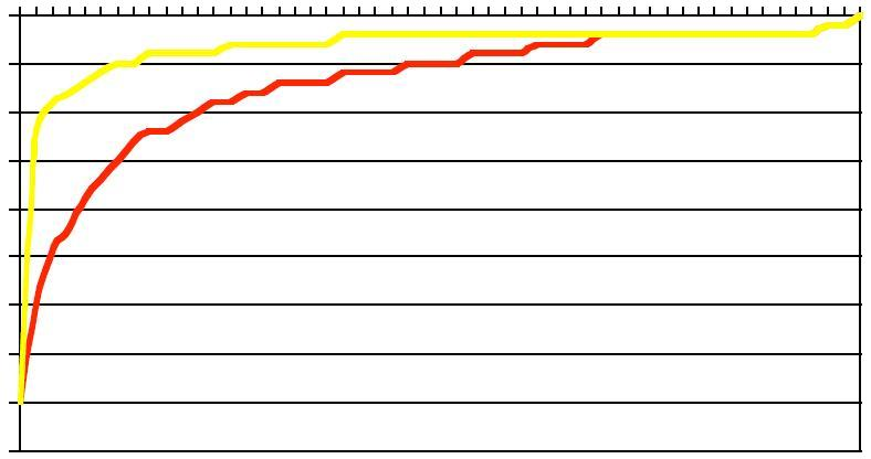 Image showing a (non-existent) replica of a theoretical dive profile (numbers removed so that no idiot tries to dive using it)